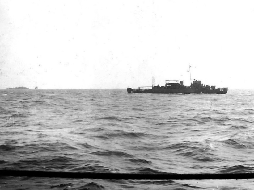 The U.S. Navy high-speed transport USS Runels (APD-85) underway off the coast of Japan on 28 August 1945. Note the dock landing ship in the background.